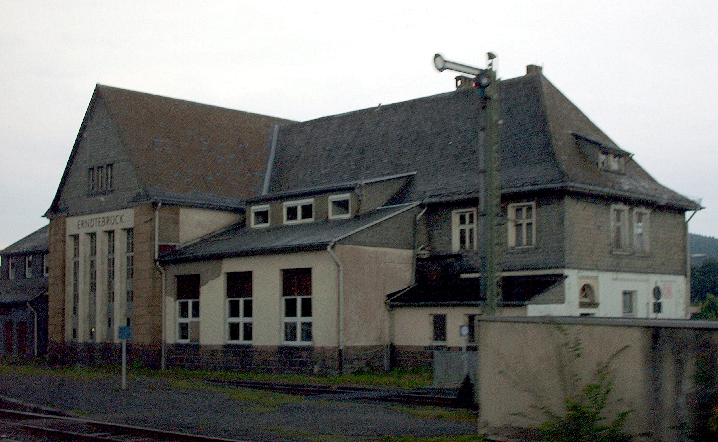 Erndtebrück station, Erndtebrück, Germany check usage